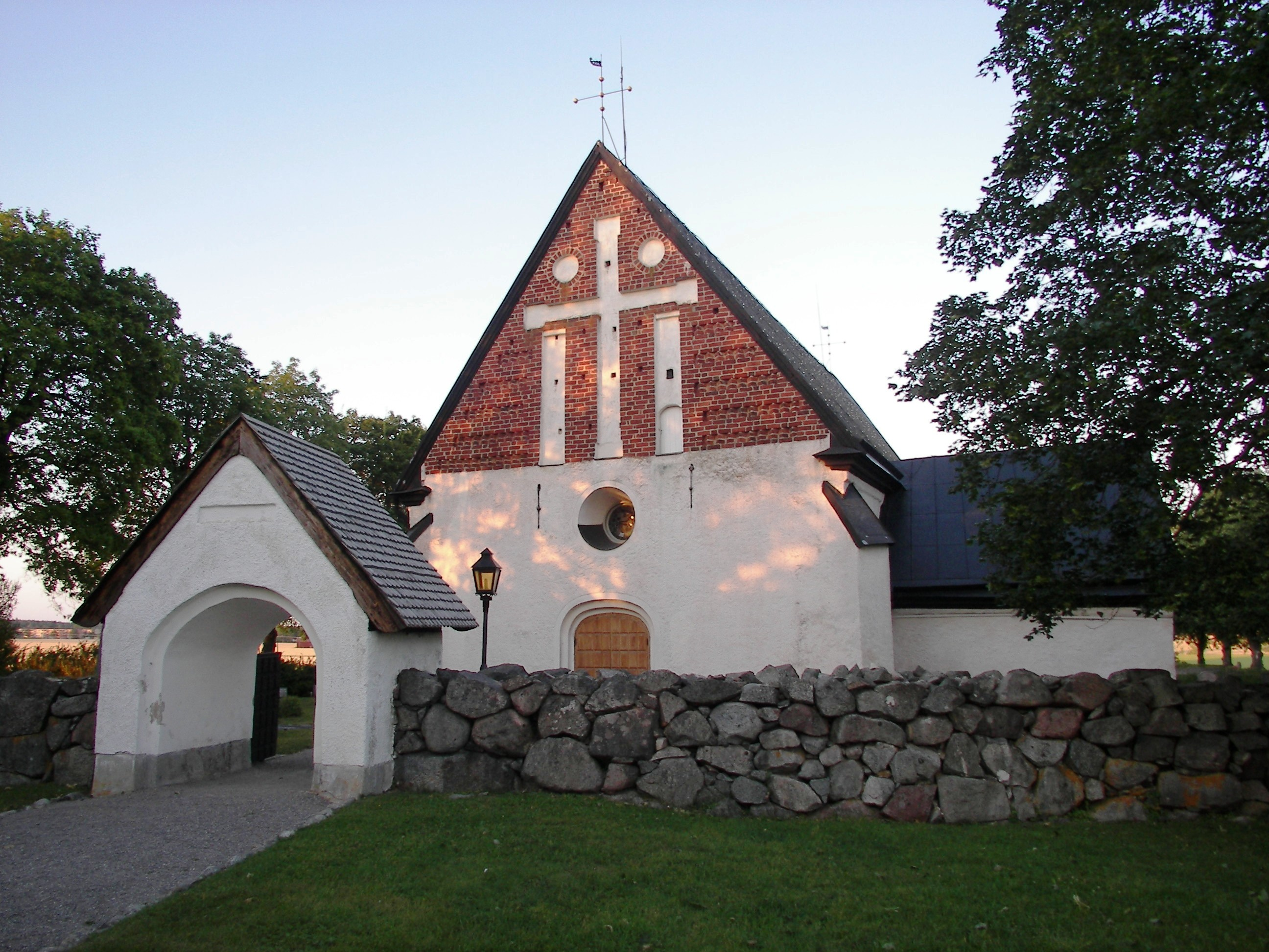 Hubbo church in Tillberga, Sweden